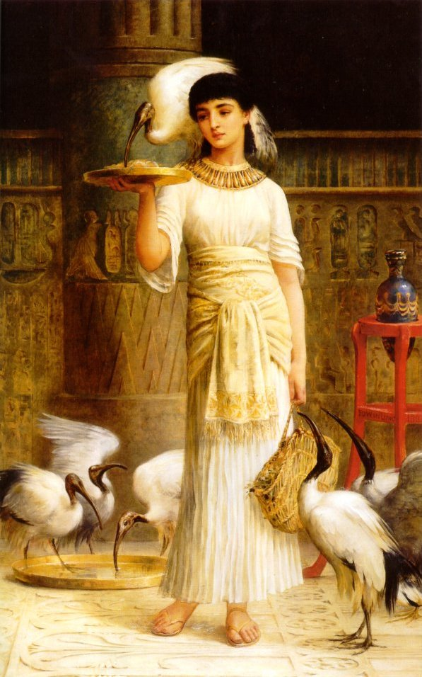 Alethe Attendant of the Sacred Ibis in the Temple of Isis at Memphis